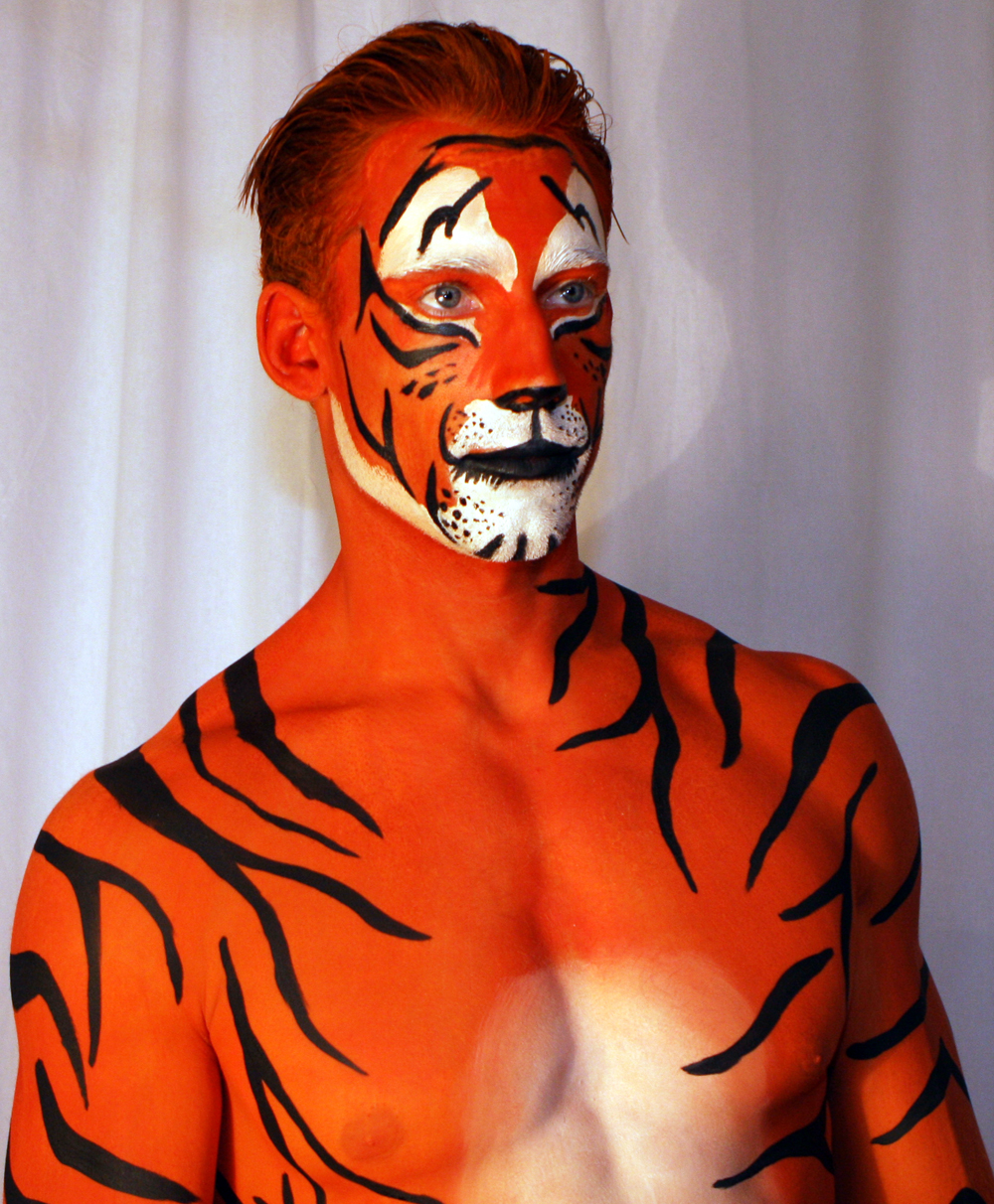 Human Statue Bodyart bodypainted tiger popular at Pharmarama, Sydney event; Catches eye of tourists, corporate types and guests on trip from Manly Wharf to Luna Park, Milsons Point, Sydney, Australia The Human Statue Bodyart creative arts agency has been extremely busy of late as Australia heads towards a sizzling hot Christmas. This afternoon the Sydney - Australia based creative arts and entertainment agency, Human Statue Bodyart, bodypainted a tiger (model, Calum Winsor), who was a big part of today's Pharmarama entertainment. For the record the client was Pharmarama and most of the Luna Park entertainment took place in 'Big Top Sydney'. By all accounts the crowd of hundreds certainly caught 'The Eye Of The Tiger'... or the tiger by the tail, if you prefer. Even the ringmaster mentioned him on the megaphone. Mr Winsor was in tiger character for the duration of the ferry trip from tourism hotspots, Manly Wharf and Luna Park, Milsons Point, and photographers and guests couldn't keep their claws off him. Fortunately the tiger's paint did not run on the journey, as the artists used special weather resistant best of breed bodypaint, which was not spoilt despite some light rain encountered. The Pharmarama festivities continued into the evening at The Big Top, Luna Park, with a ringmaster and clowns on stilts directing hundreds of guests to all the action. Well done to everyone involved in the success of the Pharmarama event, and we look forward to seeing Manly and Luna Park going animal again really soon. Websites Human Statue Bodyart Luna Park Sydney Big Top Sydney Human Statue Bodyart Flickr